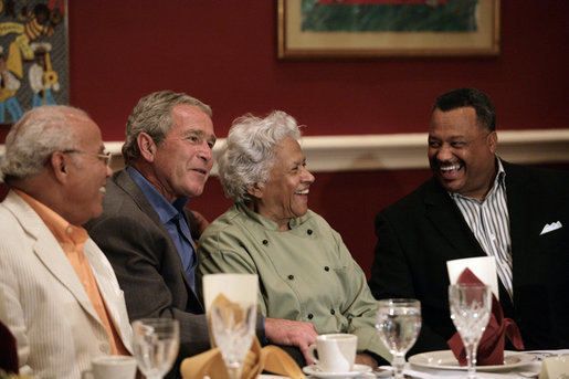 President George W. Bush shares a moment with restaurant owner Leah Chase, center, and fellow dinner guests Dr. Norman Francis, president of Xavier University of Louisiana, left, and Reverend Fred Luter, right, during a dinner with Louisiana cultural and community leaders Tuesday evening, Aug. 28, 2007, at Dooky Chase's restaurant in New Orleans. President Bush and Mrs. Laura Bush are visiting New Orleans and the Gulf Coast region on the second anniversay of Hurricane Katrina. White House photo by Shealah Craighead